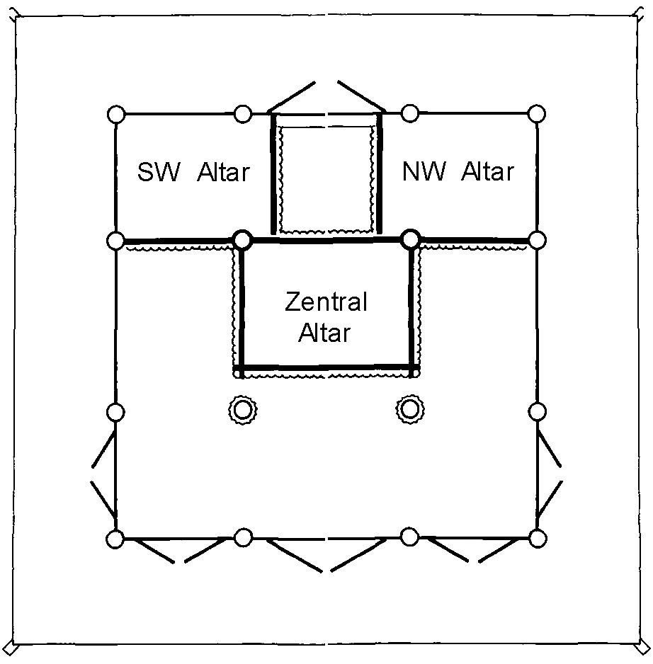 Layout of Konjikidô of Chûsonji Temple